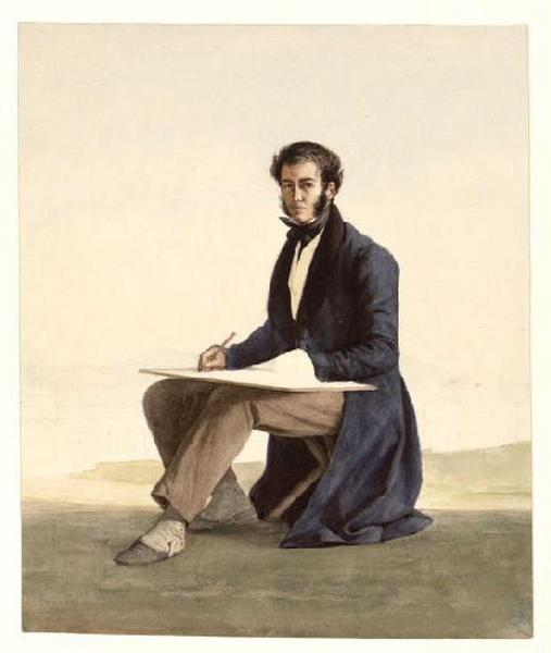 Self-portrait of Guillaume Bodinier, French painter (1755-1839)